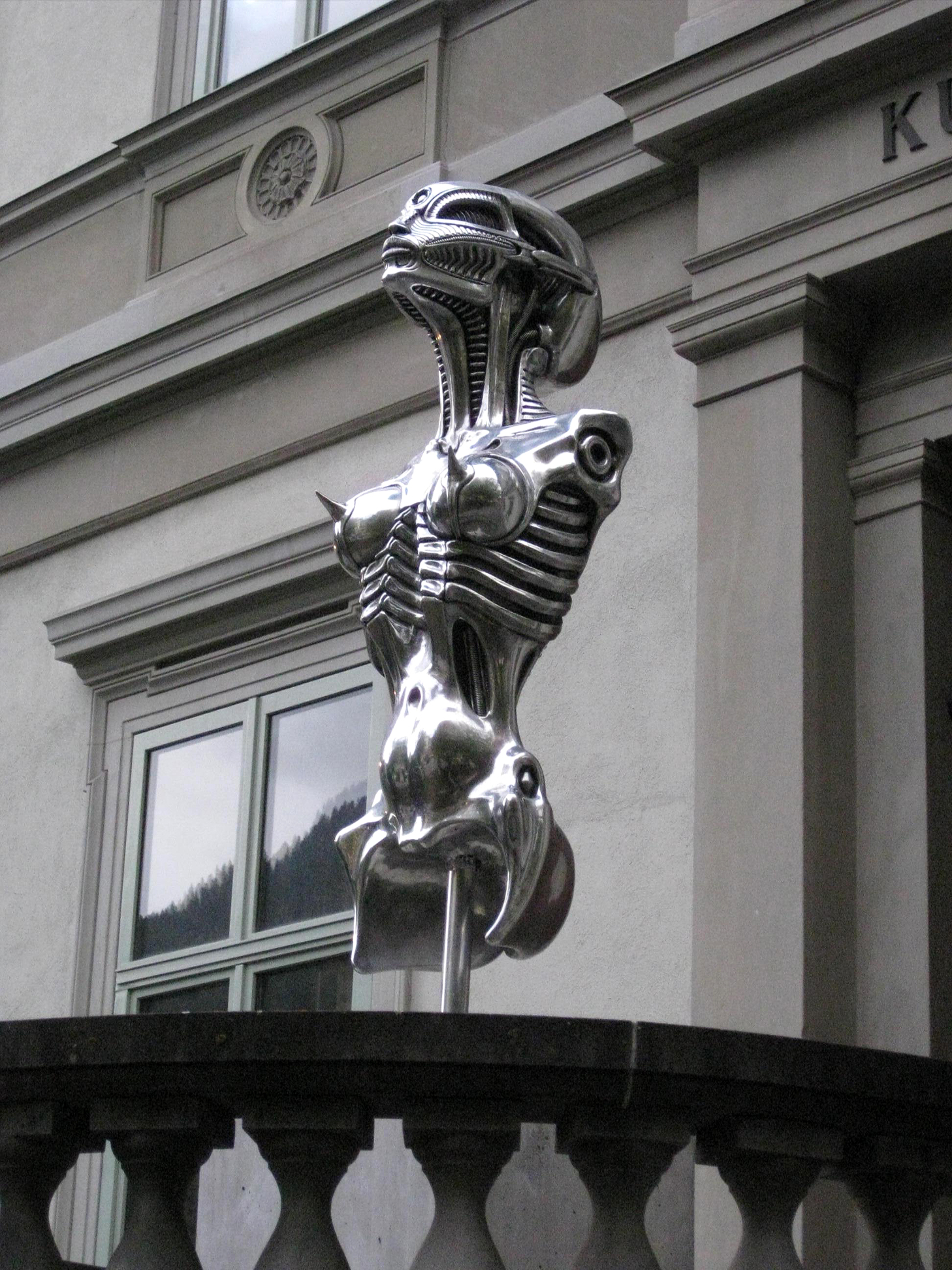 H.R. Giger, Female Torso, 2009, - Switzerland, Graubuenden, Chur, Buendner Museum of Art, side entrance